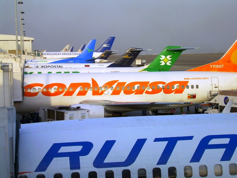 Airplanes viewed from the Domestic Terminal at Simón Bolívar International Airport in Caracas, Venezuela. I took the picture myself author=Carlos Colina e-mail=